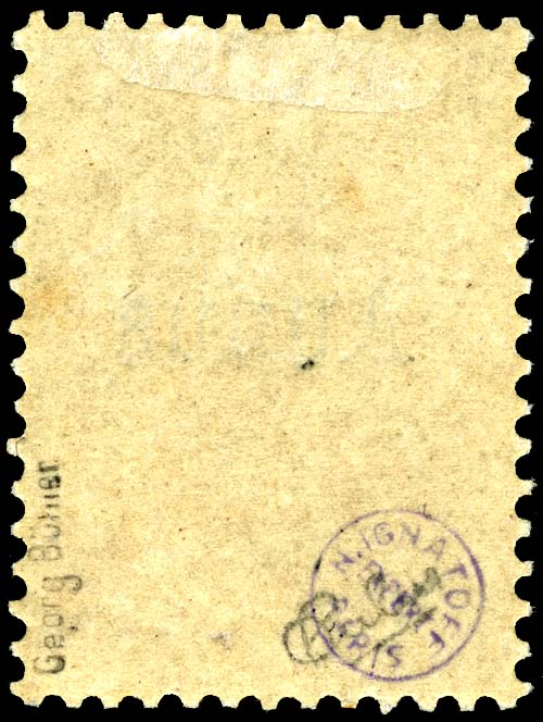 Back of Finnish occupation stamp, showing expertising marks; These particular marks are known to have been forged themselves, so they are no assurance of authenticity.